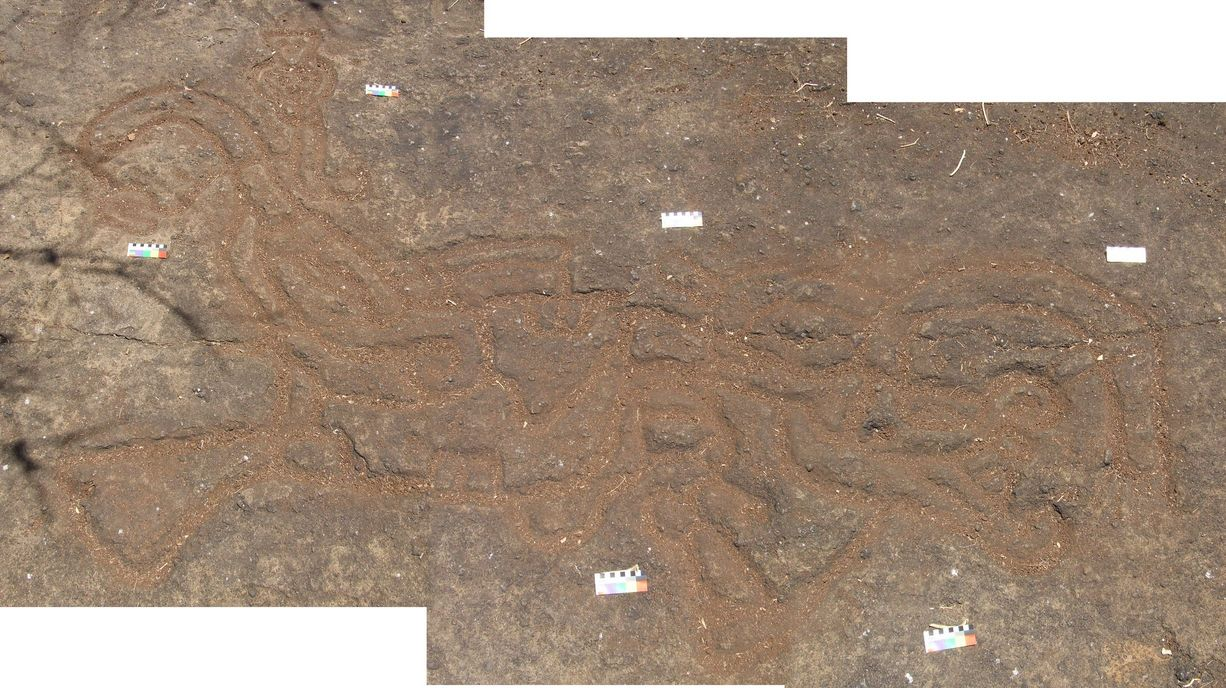 Grabado 47 Isla El Muerto, Nicaragua